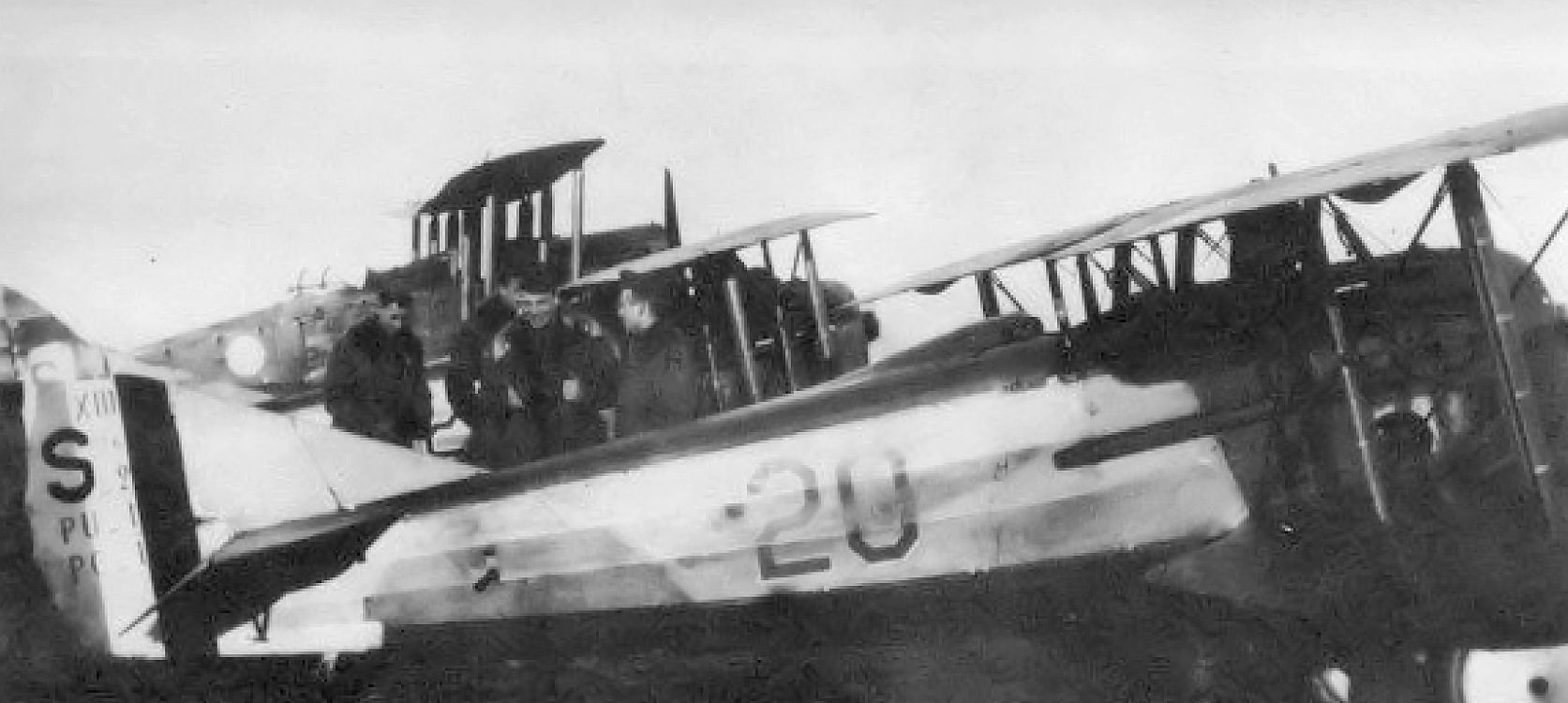 22d Aero Squadron SPAD S.XIII, likely at Gengault Aerodrome, Toul, France